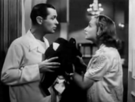 Cropped screenshot of Robert Montgomery and Carole Lombard from the trailer for the film Mr. & Mrs. Smith